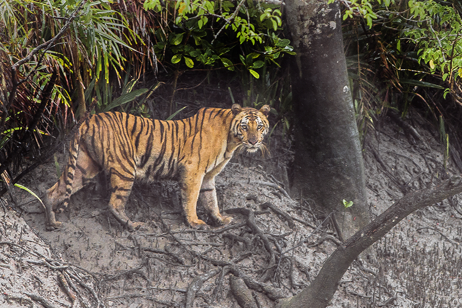 This image has been captured from Sundarbans Tiger Reserve on 22.07.2015 during the reconciliation tour of GoingWild by Dibyendu Ash.